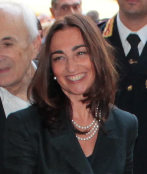 Photo of Gianna Gancia, italian politician, taken at Ceva (Italy)